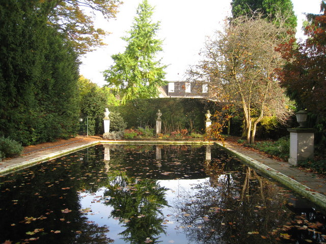 Former swimming pool Fellows Garden, Christ's College, Cambridge.